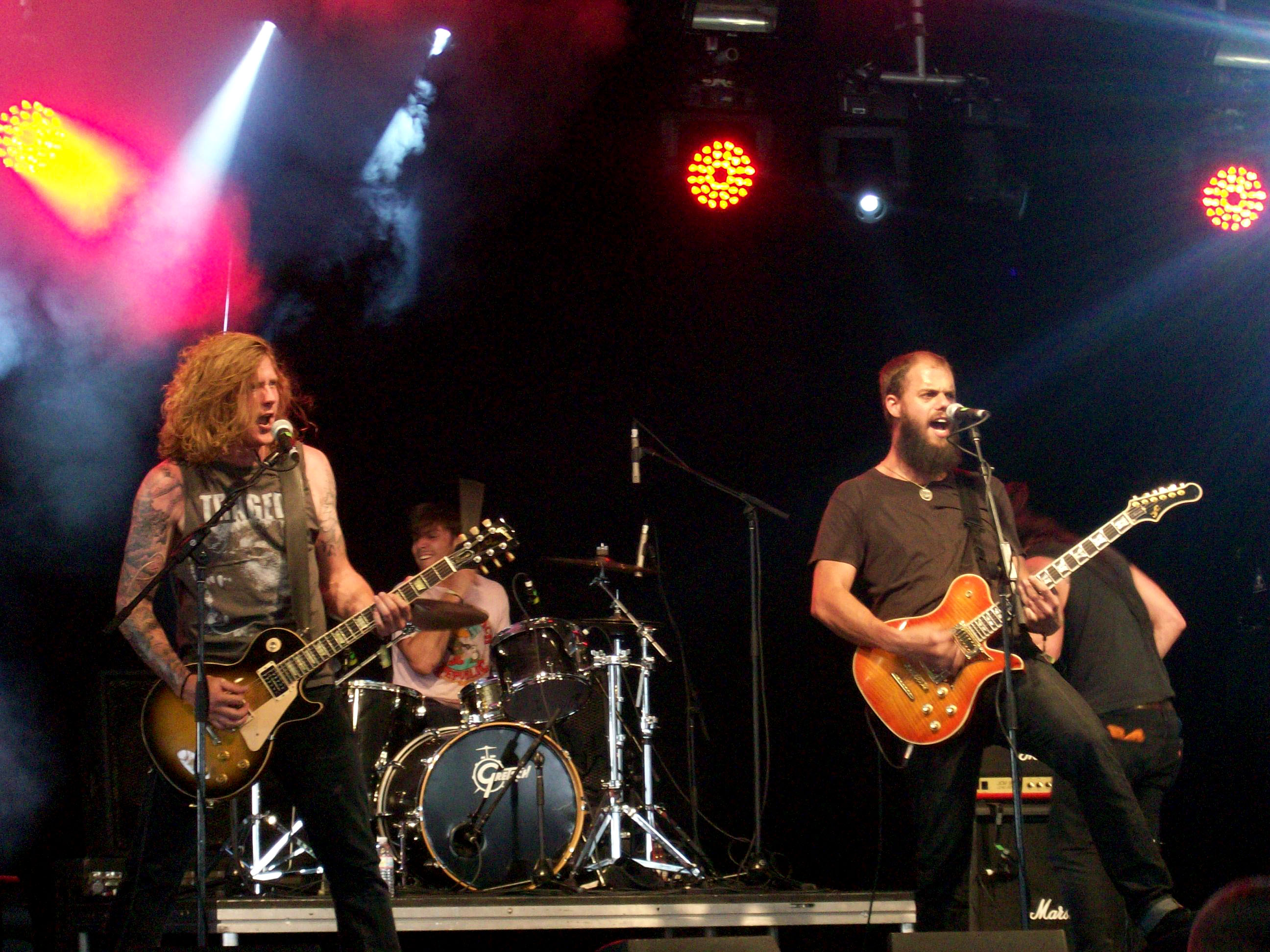 Progressive metal band Baroness at Coachella 2010